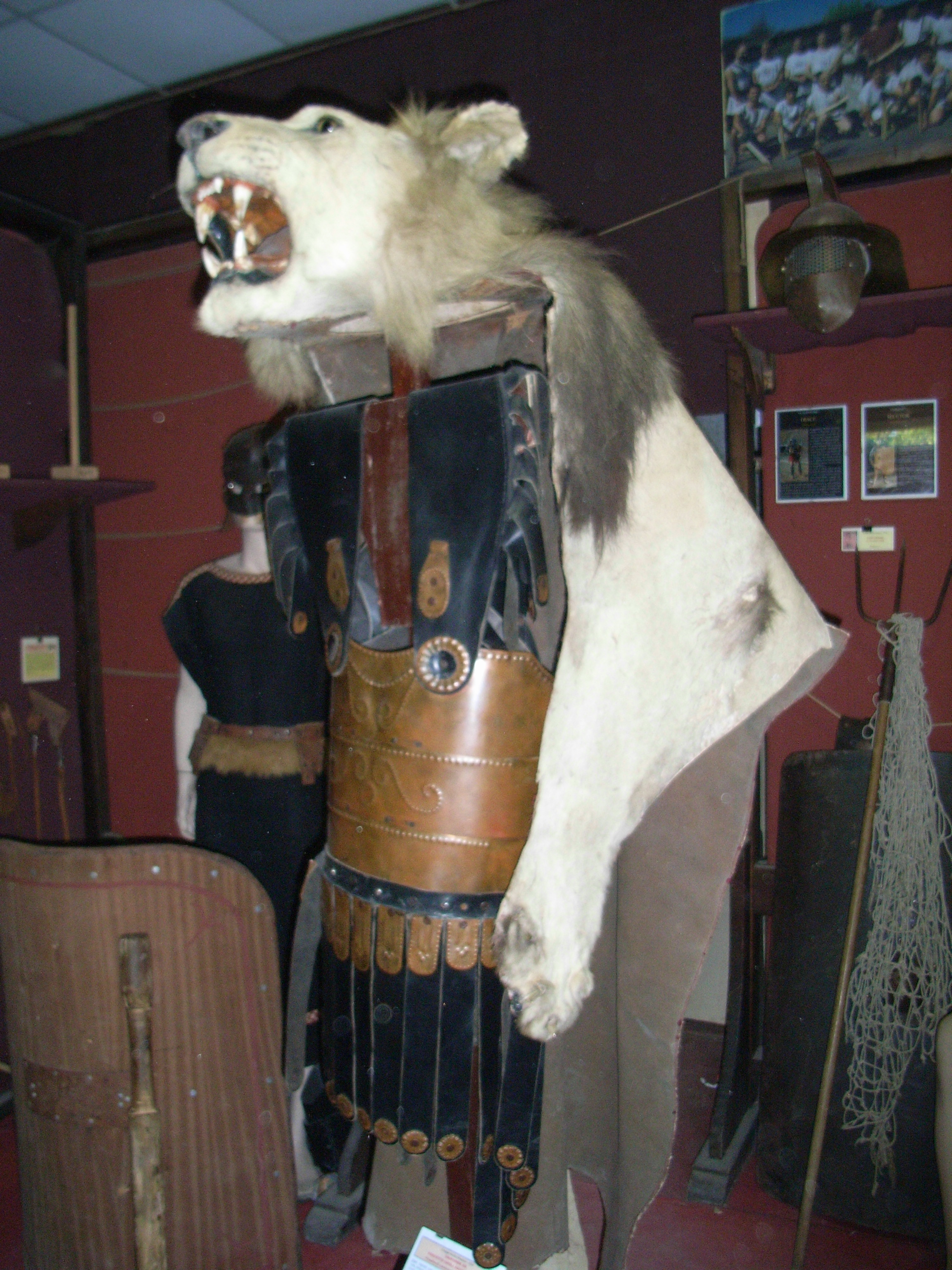 Ancient Roman Legion Roman Legion Imperial Roman army Feline (lion) headdress of an aquilifer and lorica segmentata mde of metal and leather. Photograph taken with permission at Museo Gruppo Storico Romano Museum in Rome